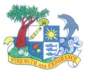 Coat of arms of Anguilla 1967